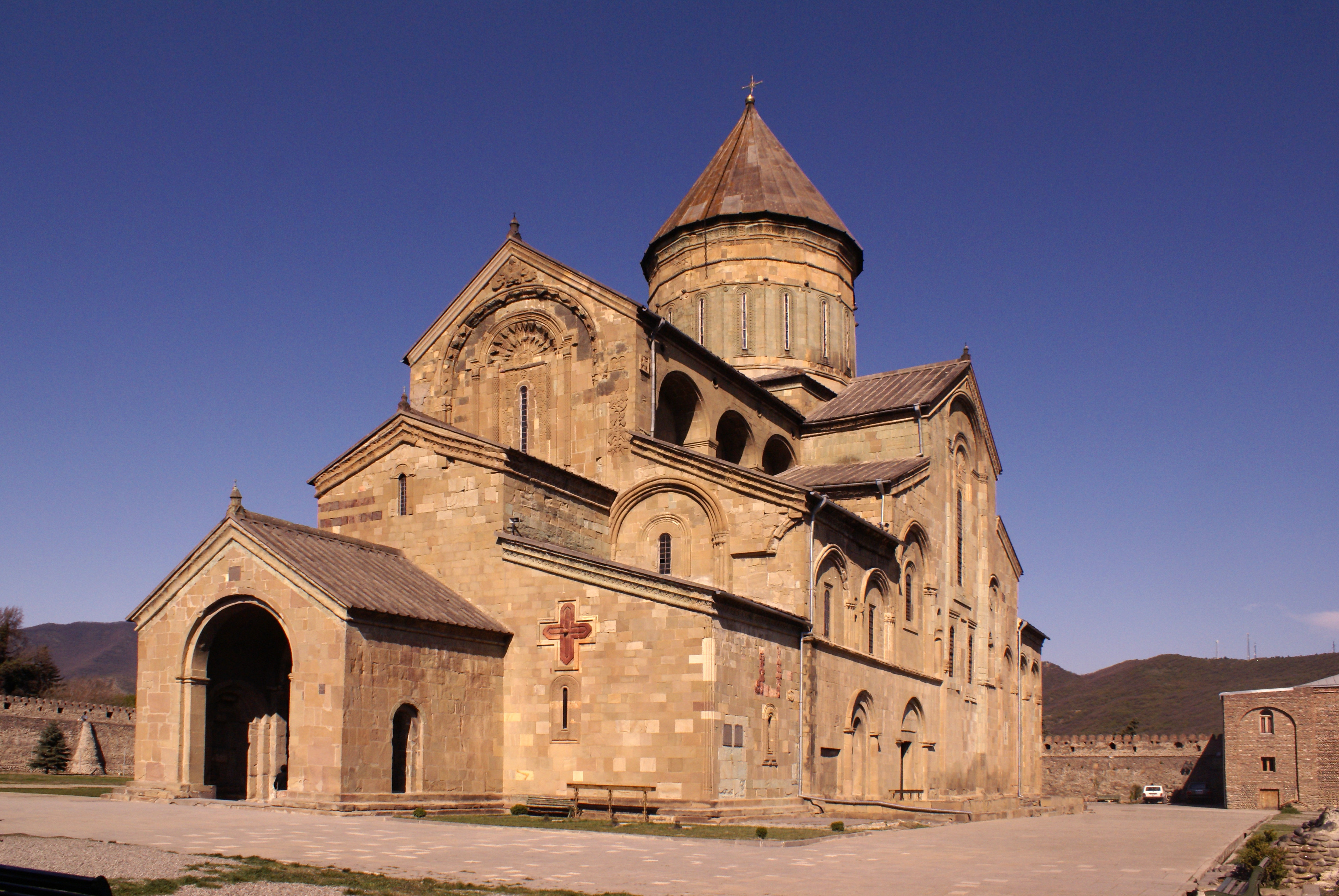 Svetitskhoveli Cathedral, Mtskheta.